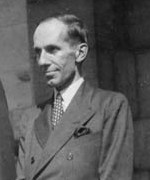 Vincent Massey, at the time of this photo the first "Canadian Envoy Extraordinary and Minister Plenipotentiary to the United States for His Majesty's Government in Canada" and the future Governor General of Canada (1952-59).